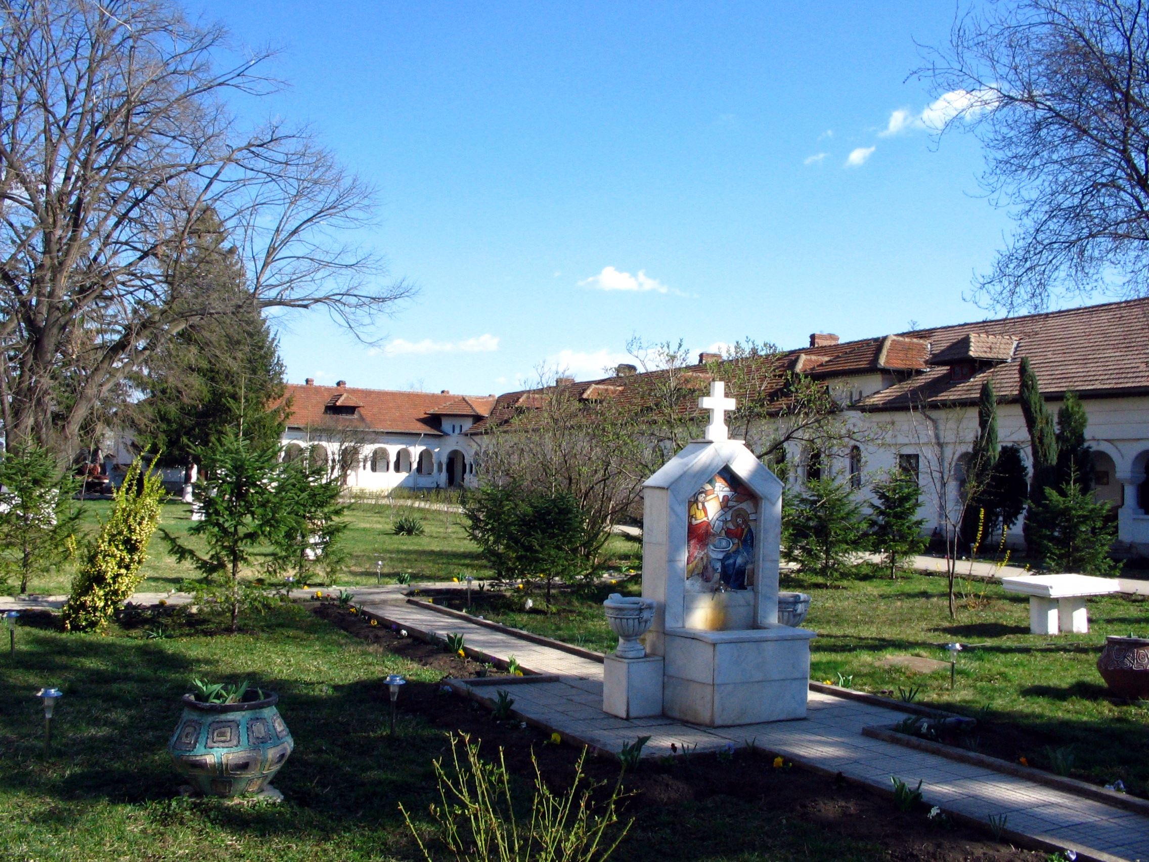 The yard of the Ghighiu Monastery, Romania